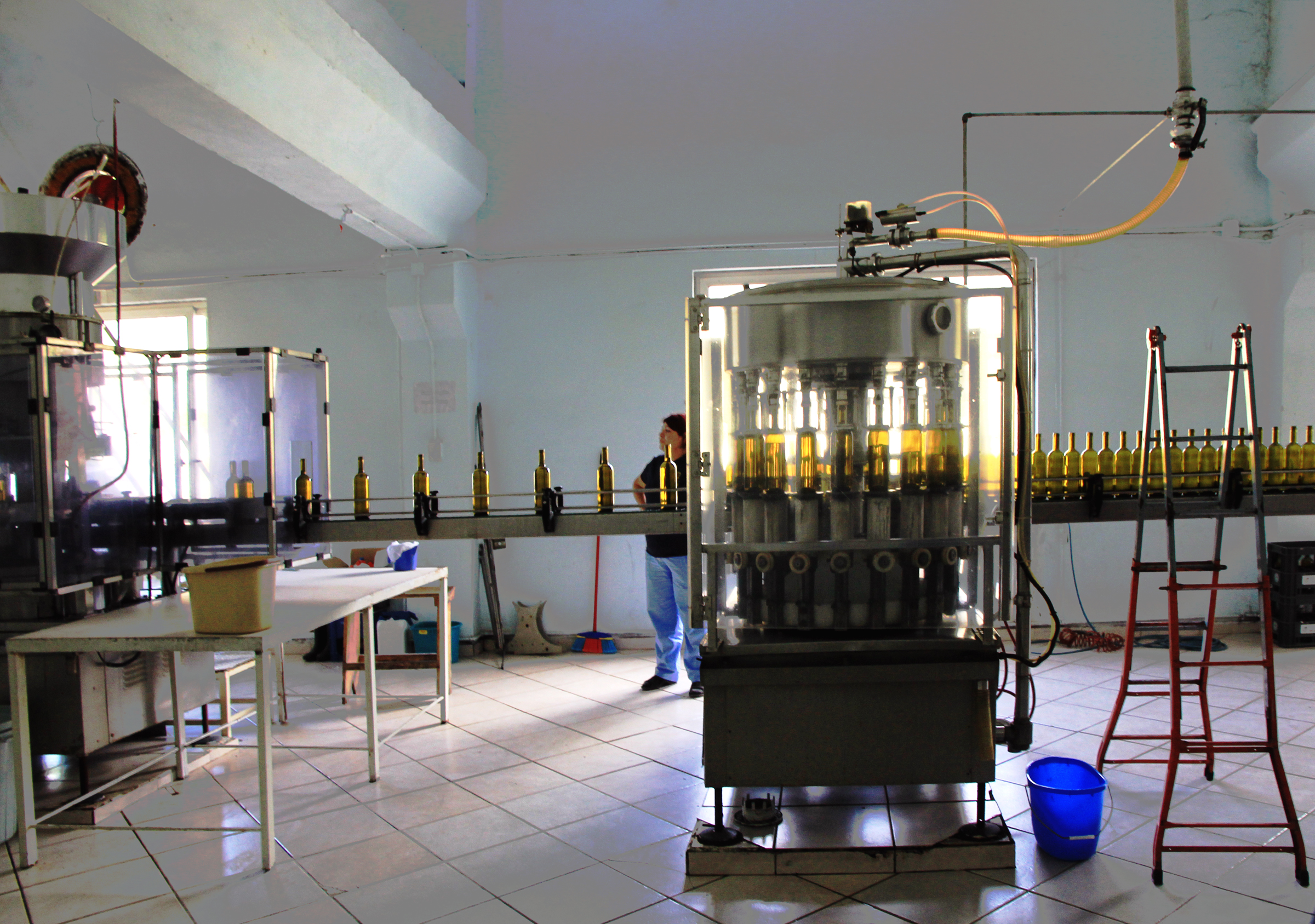 The automatic filling bottling line in plant for alcoholic beverages production Kantina Skënderbeu near the city Durrës, Albania, September 2018.